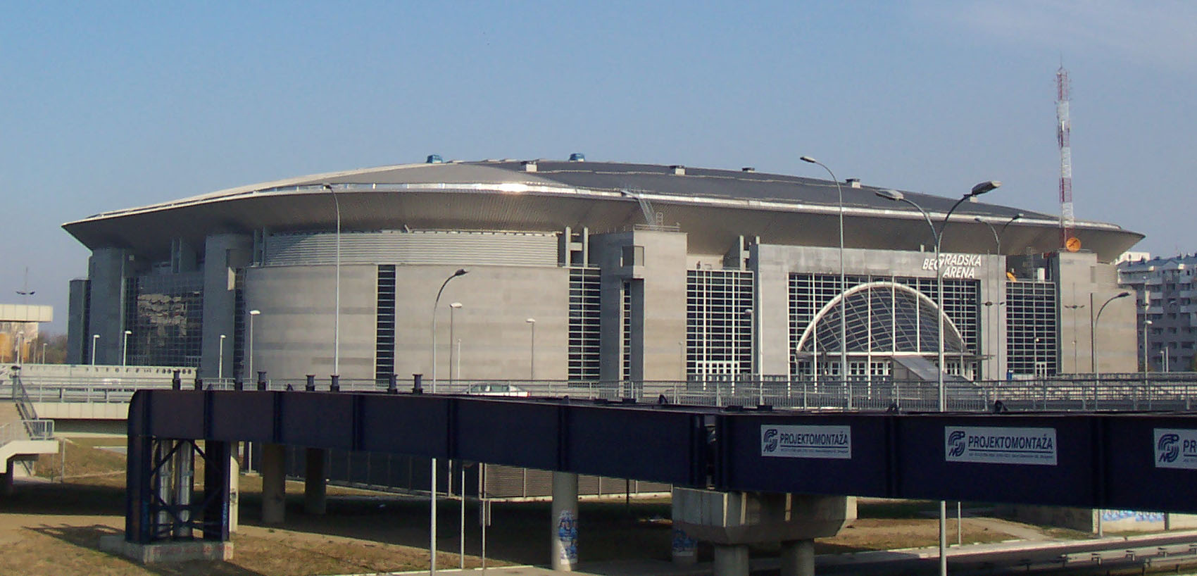 Belgrade Arena view from south-west